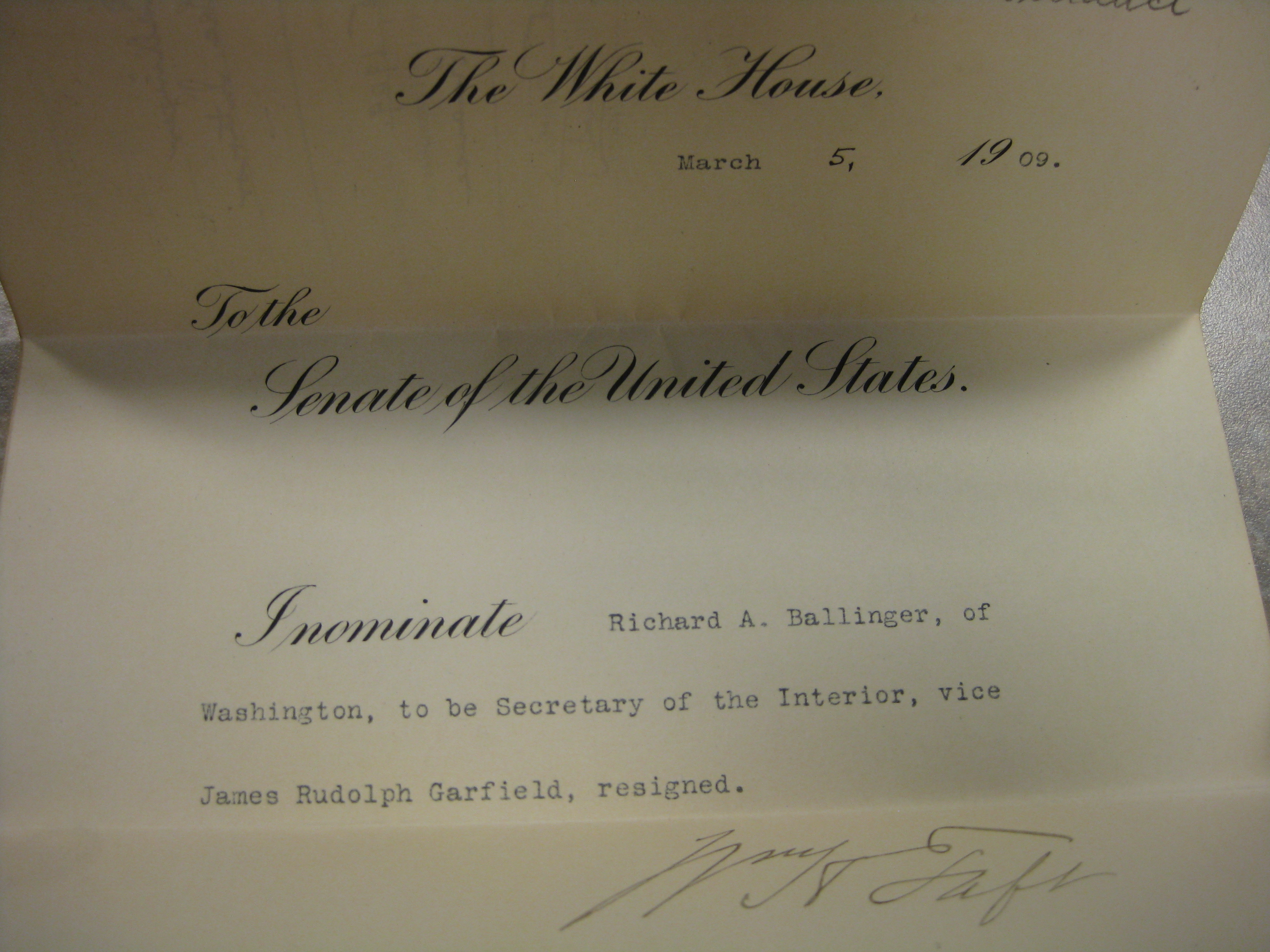 William H. Taft's nomination of Richard Ballinger to serve as Secretary of the Interior. Courtesy of the National Archives and Records Administration.